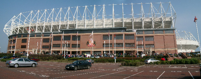 The Stadium of Light The home of Sunderland football club